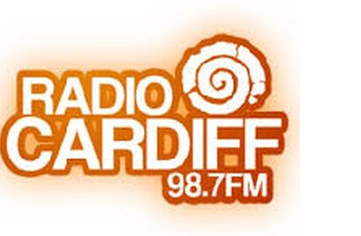 Former Branding